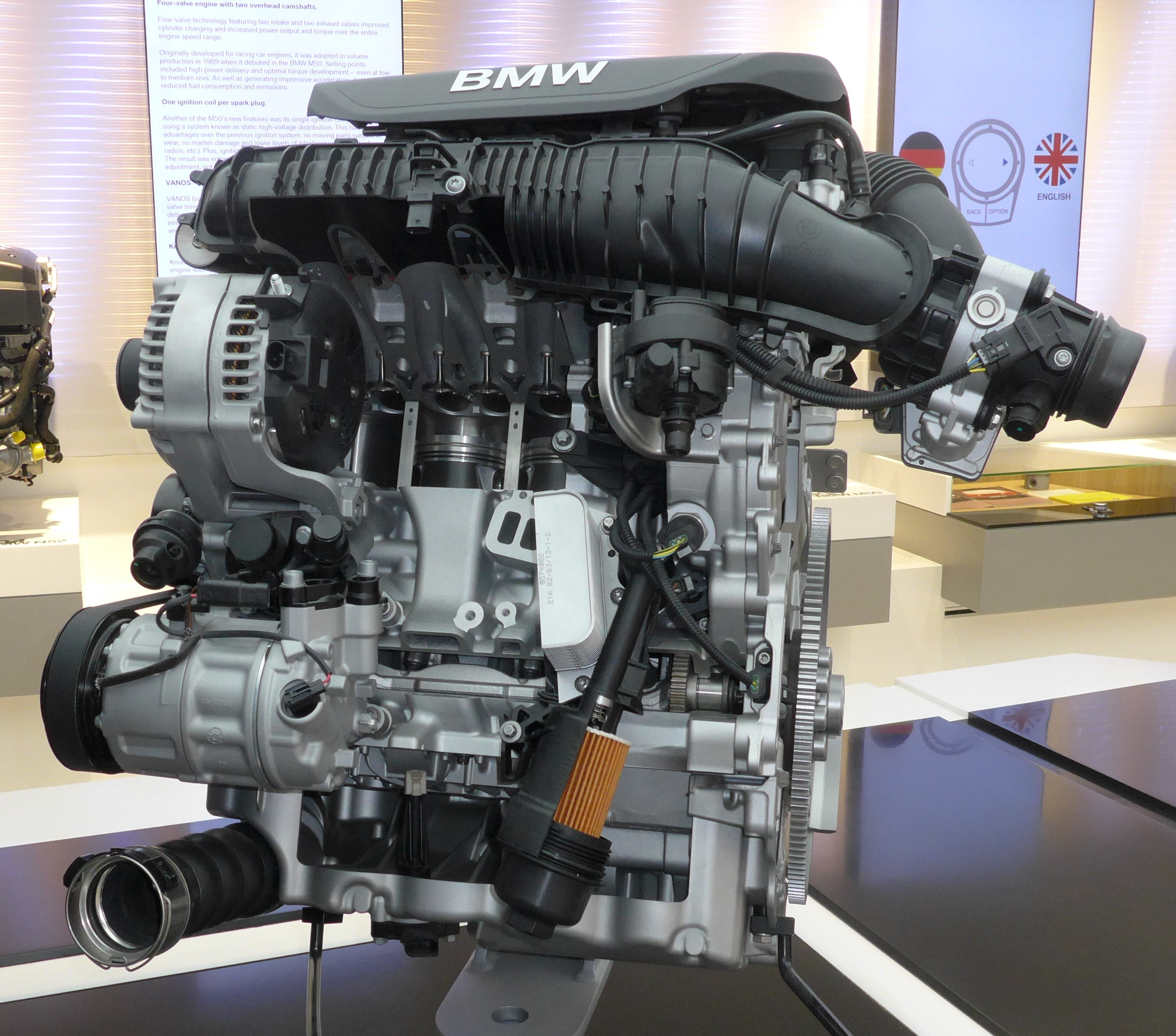 BMW engine B48 in BMW museum